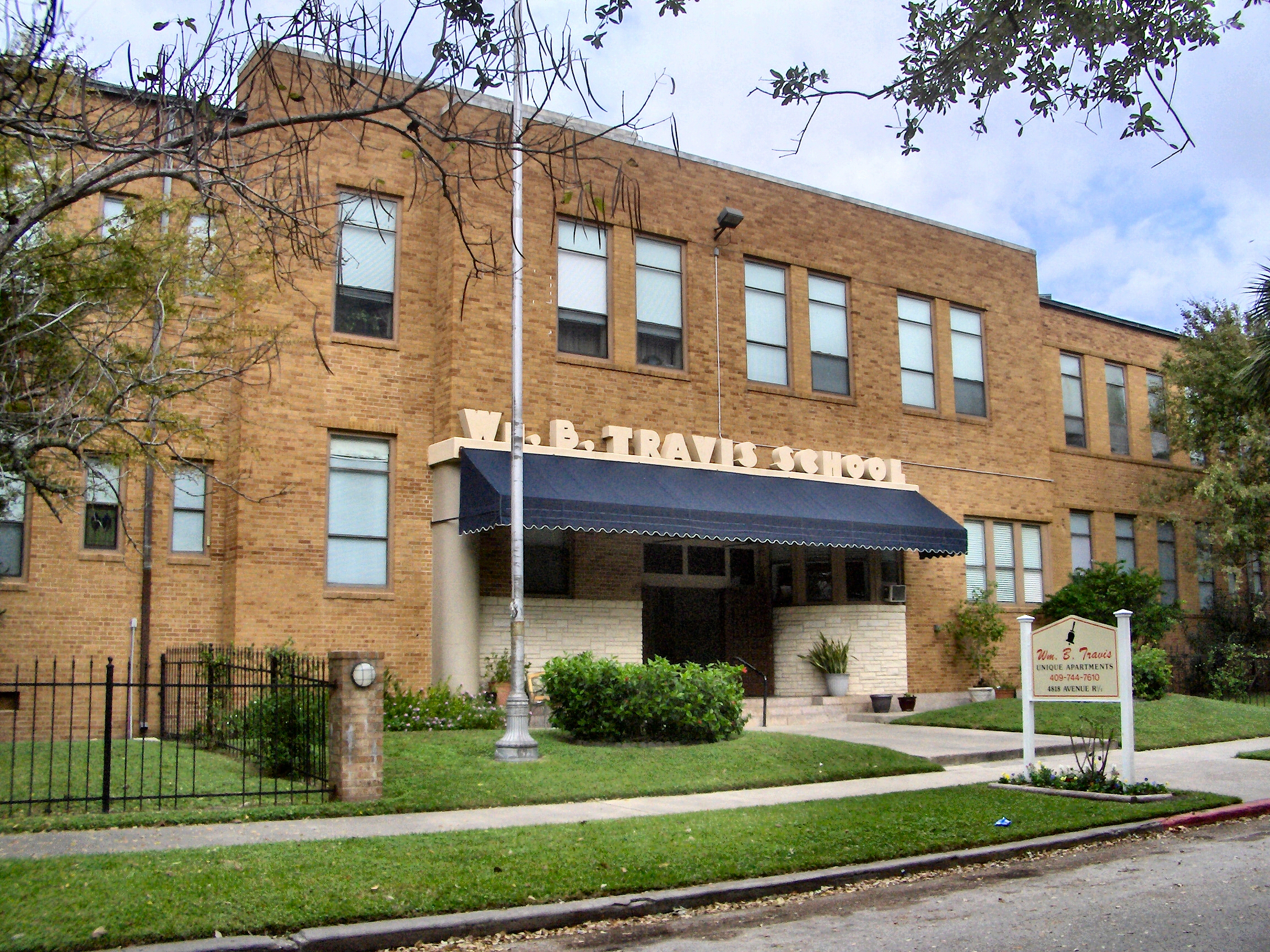 Former William B. Travis elementary school in Galveston, Texas. Photo taken by myself, May 2007. Nsaum75 17:24, 11 June 2007 (UTC)